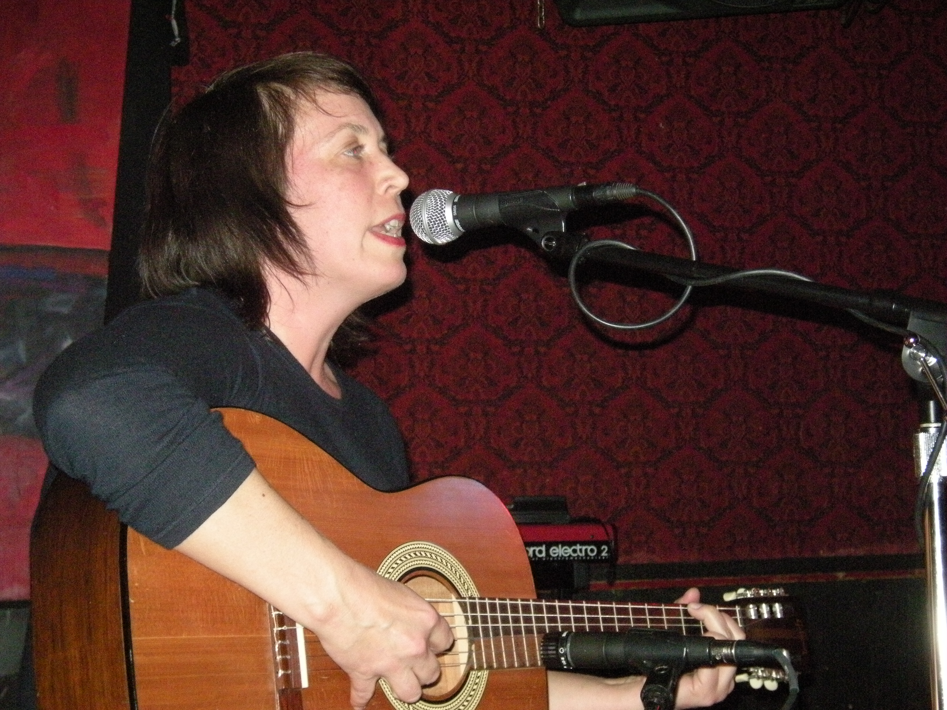 Sarah Dougher performing as part of EMP Pop Conference Night at the Sunset in Seattle's Ballard neighborhood, part of the 2009 Pop Conference, Experience Music Project, Seattle, Washington.